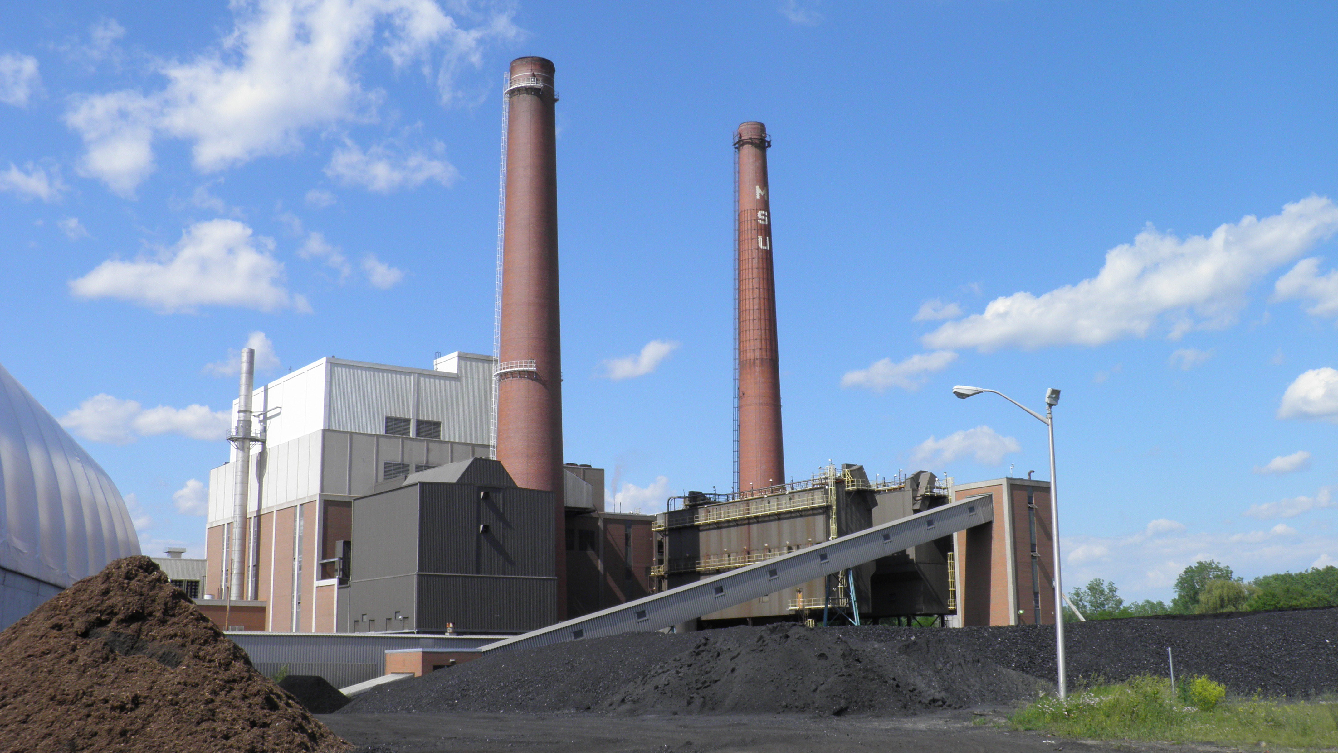 T. B. Simon Power Plant at Michigan State University. South view from Incinerator Road. The Simon plant provides electricity, heating, cooling, and water to the East Lansing campus. Its primary fuel is coal.